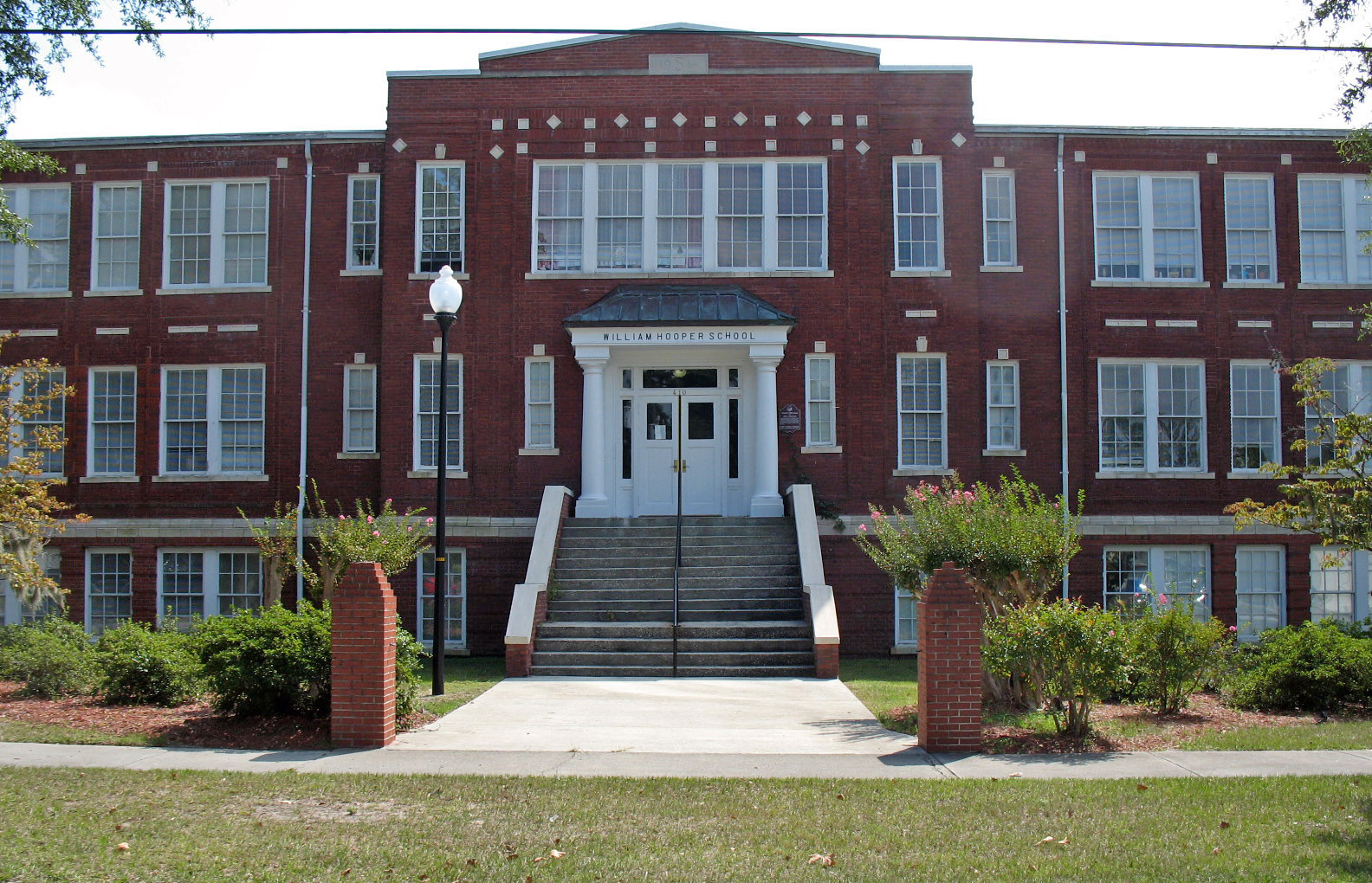 National Register of Historic Places listings in New Hanover County, North Carolina. William Hooper School, 410 Mears St, Wilmington, NC. Photographed September 20, 2009 from the north side of Mears St between South 4th and South 5th St.